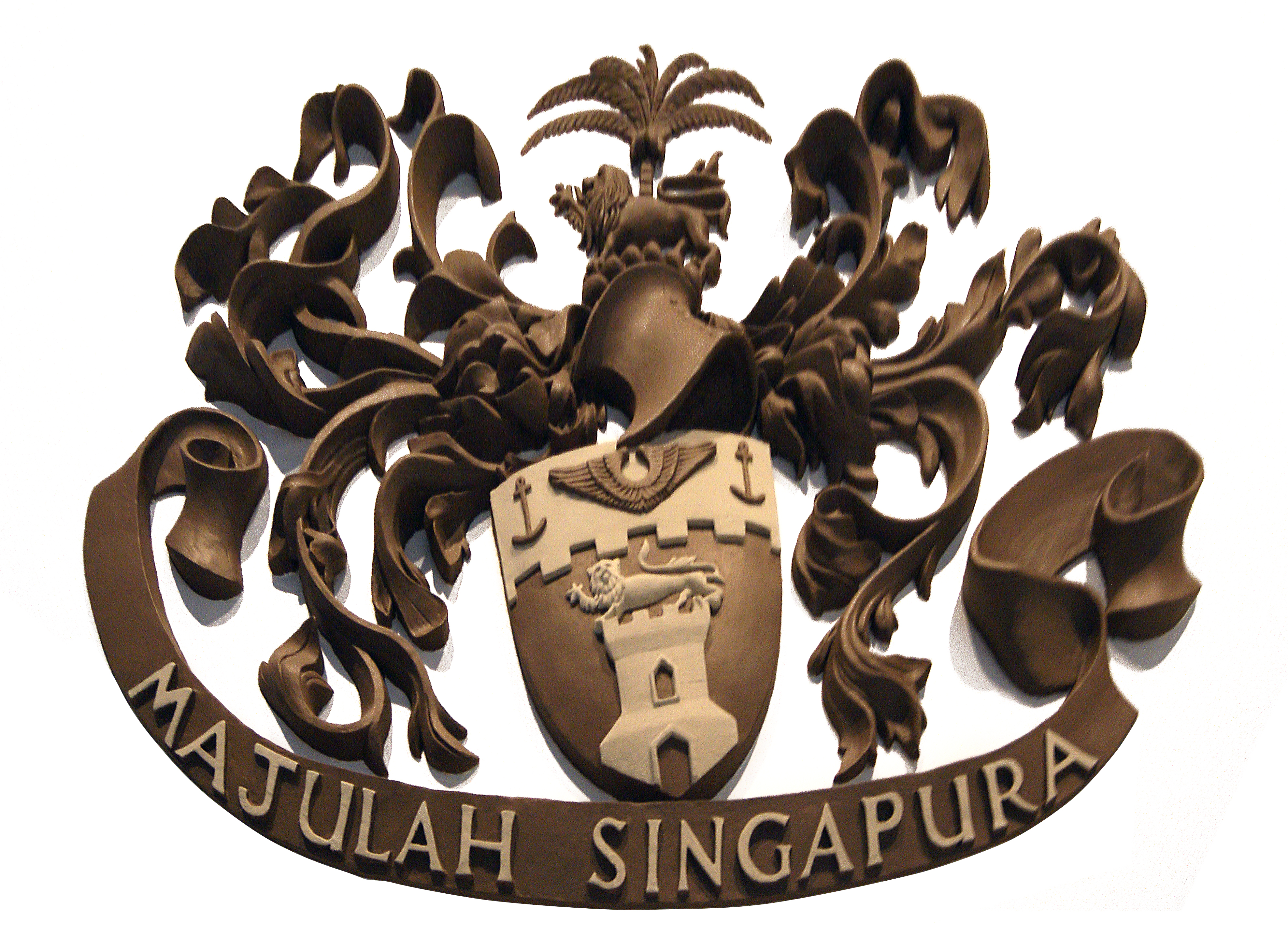 A relief of the coat of arms of the Singapore Municipal Commission at Victoria Theatre, after it reopened on 15 July 2014 following renovations.